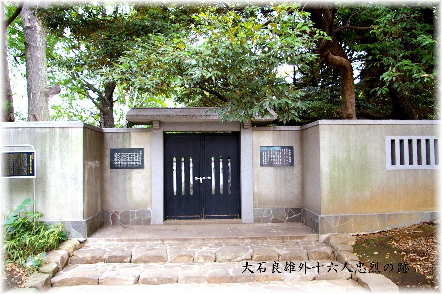 The place where Ōishi Yoshio and the 46 Rōnin passed away in Minato-ku, Tokyo